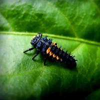 Third stage larva of Harmonia axyridis